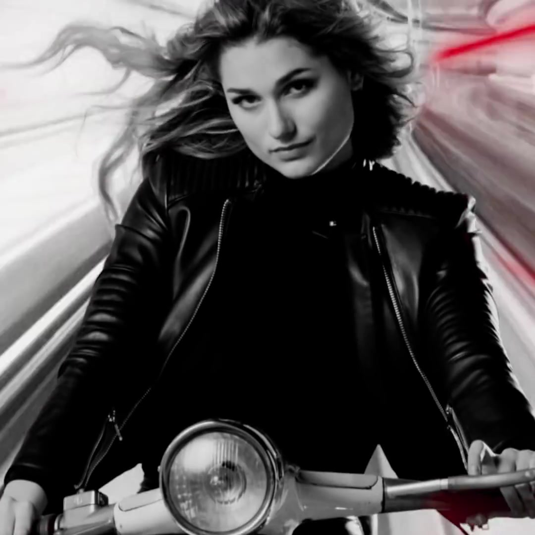 Sasha Meneghel in an advertising campaign for the Arezzo shoes and handbags brand.